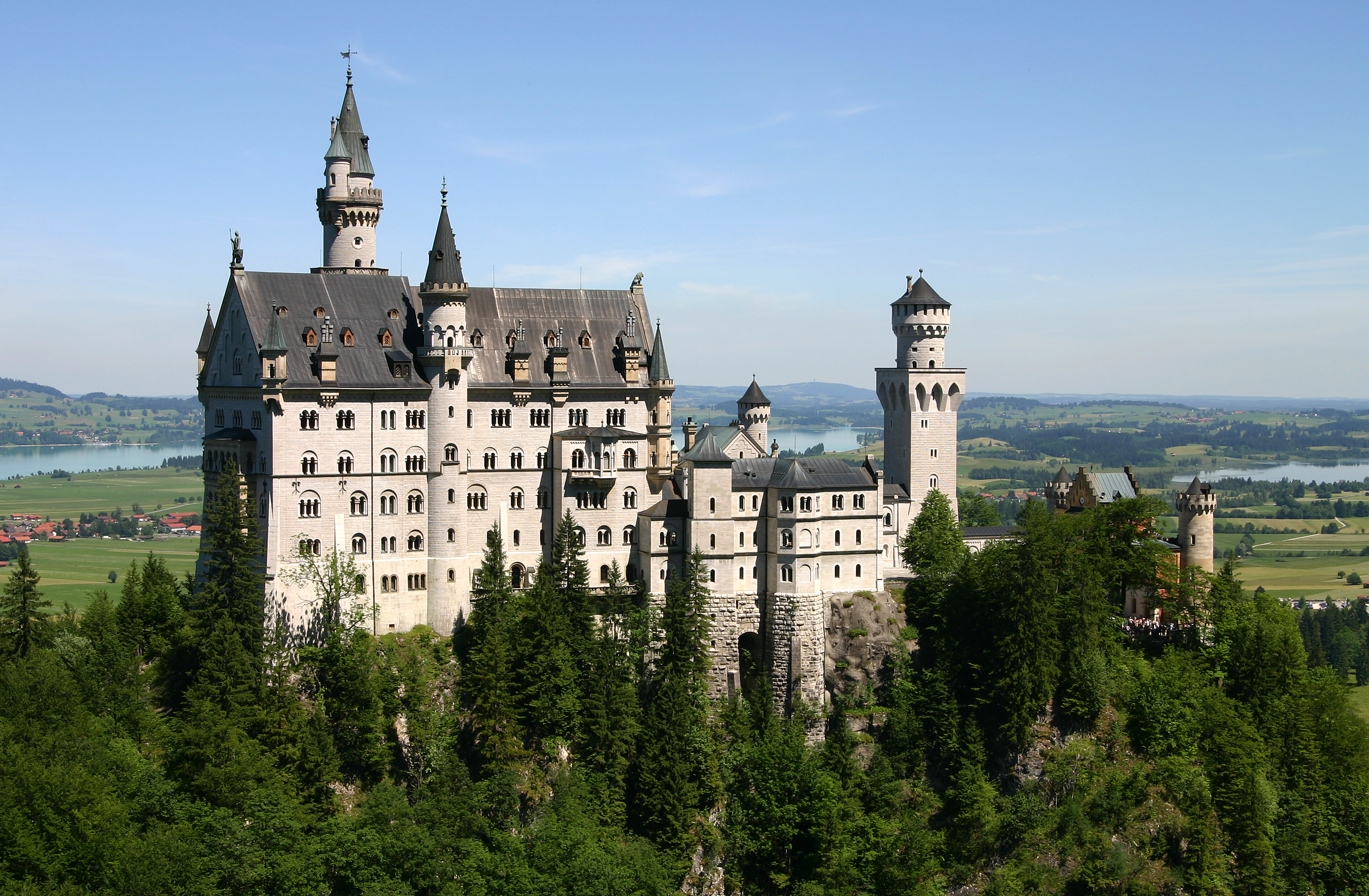 Castle Neuschwanstein at Schwangau, Bavaria, Germany